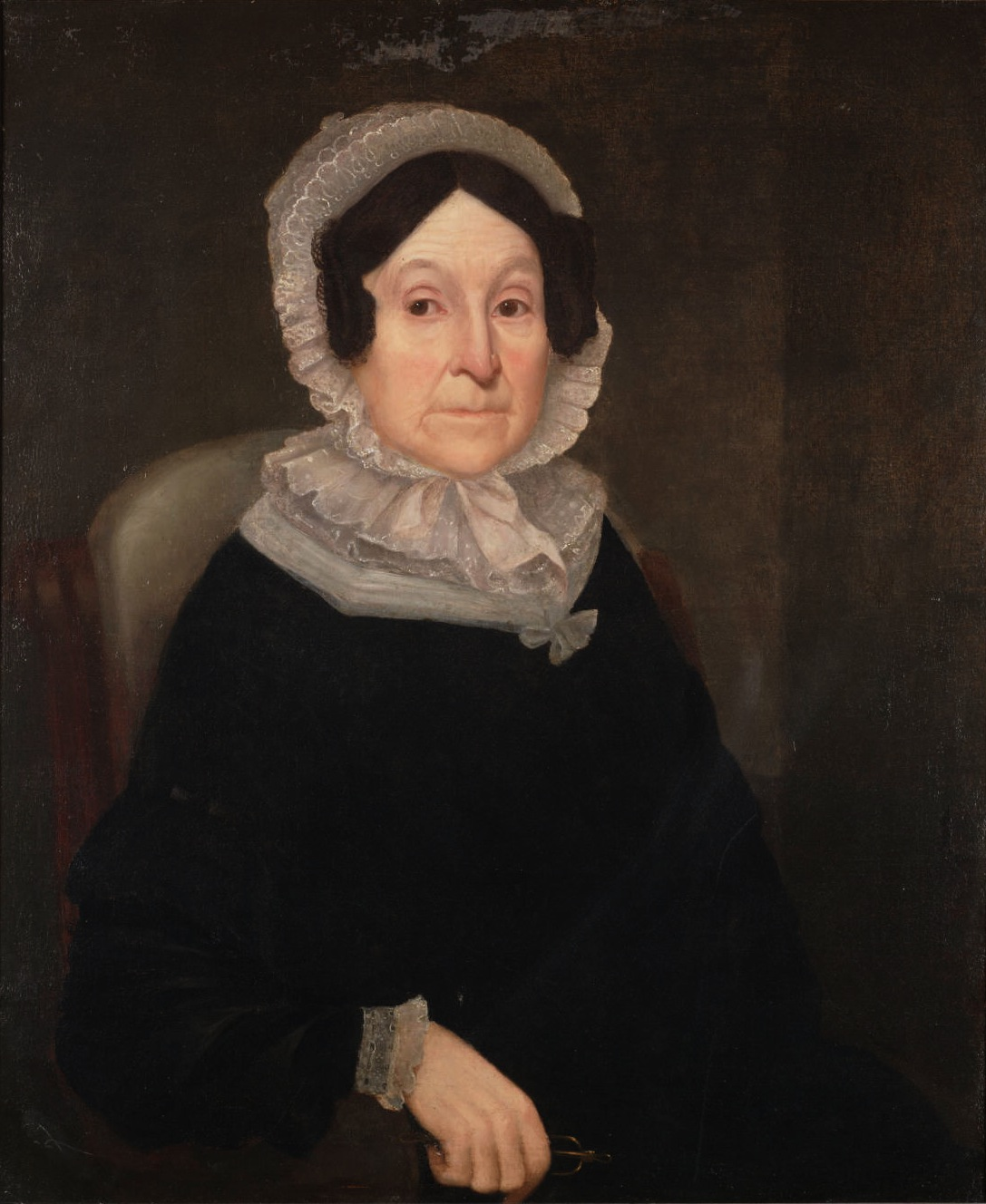 Rebecca Greenleaf Webster, wife of lexicographer Noah Webster. Image courtesy of the Beinecke Rare Book & Manuscript Library, Yale University.